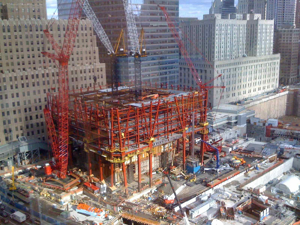 freedom tower construction